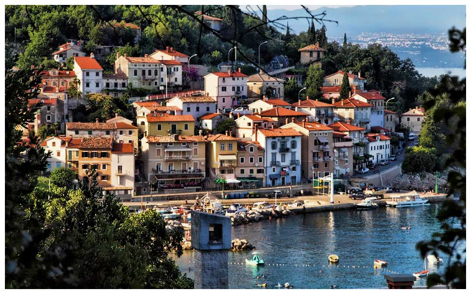 Mošćenička Draga, Istria peninsula, Croatia.